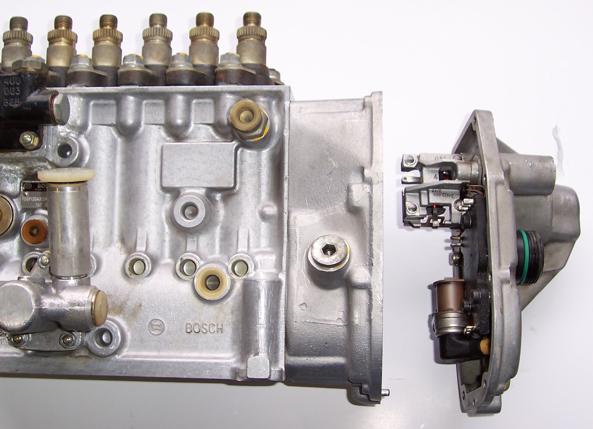 pump actuator of an Electronic Diesel Control (EDC)